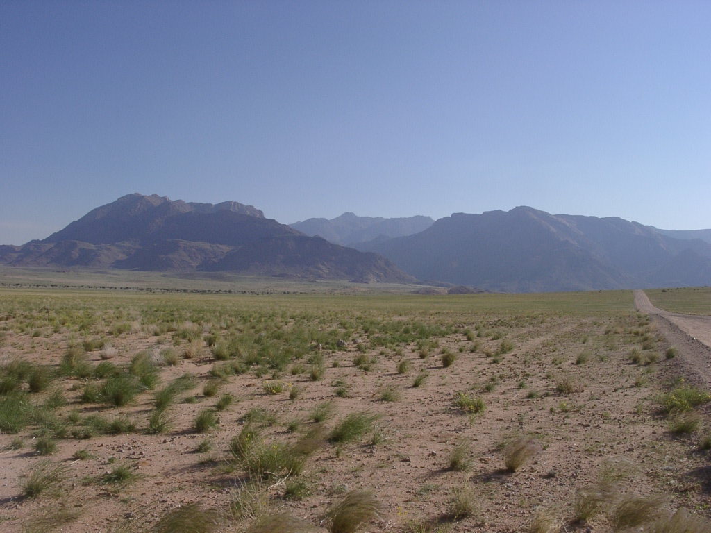 The Brandberg Massif, Namibia. Taken from the south, 10km distance.